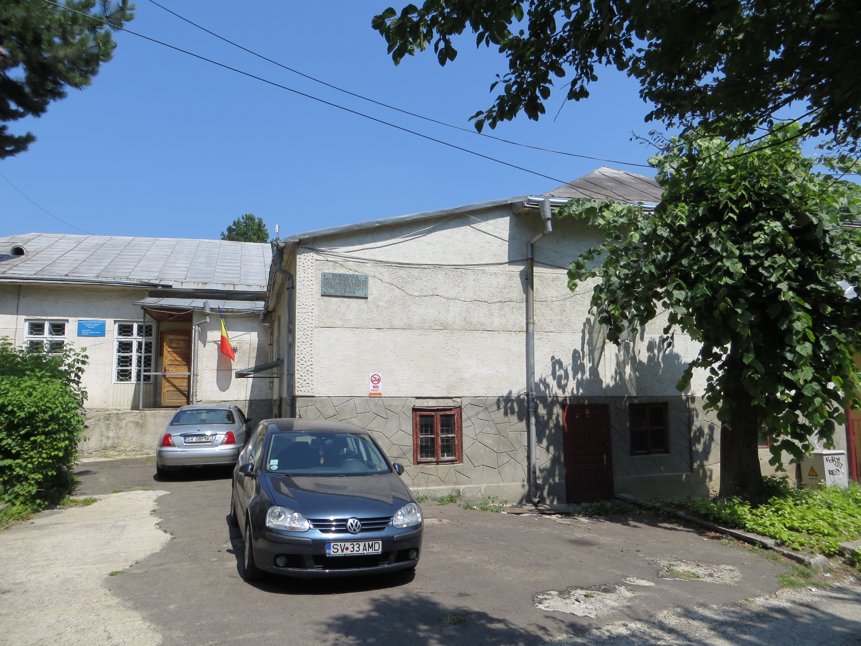 George Tofan House of the Teaching Staff in Suceava.